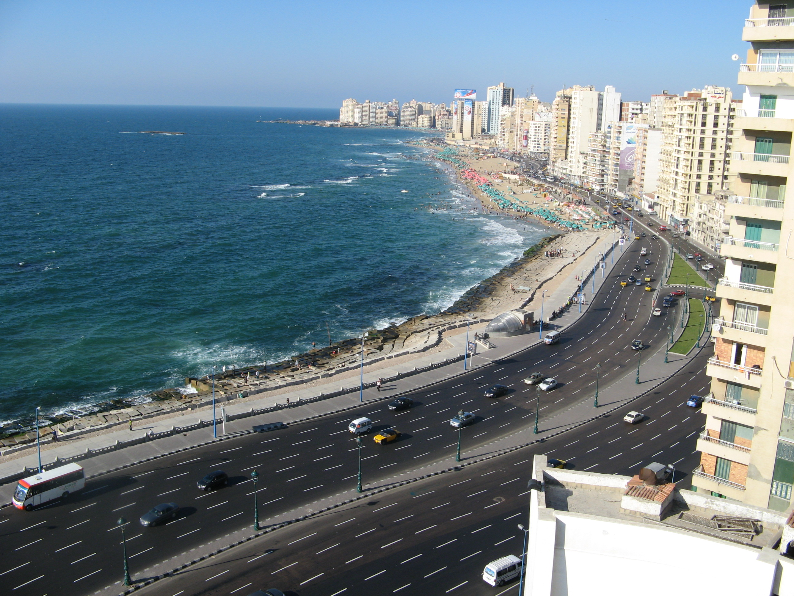 A view on the Alexandria (Egypt) coastal line from the 7th floor.